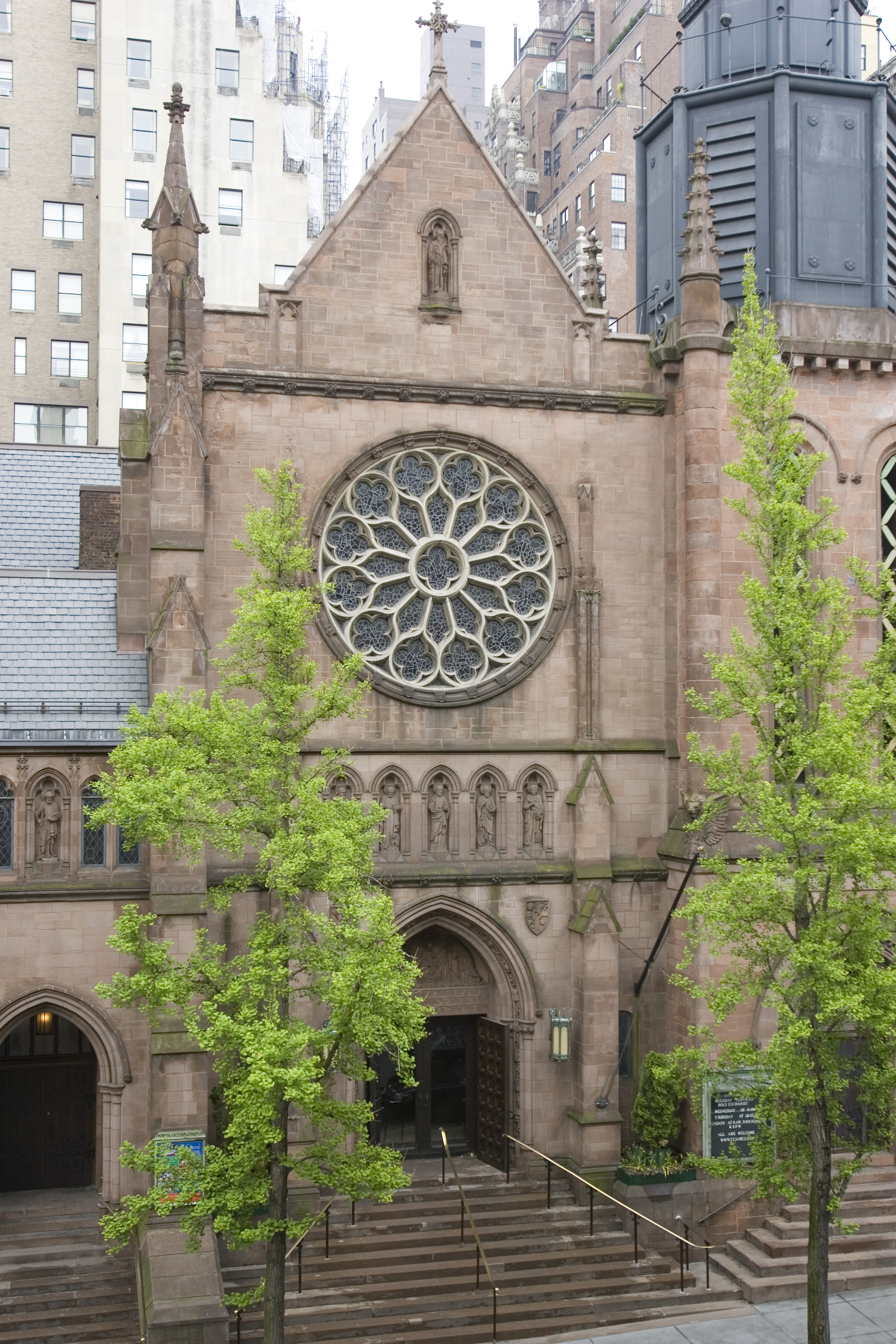 The Madison Avenue entrance to St. James' Church (Episcopal), New York City.